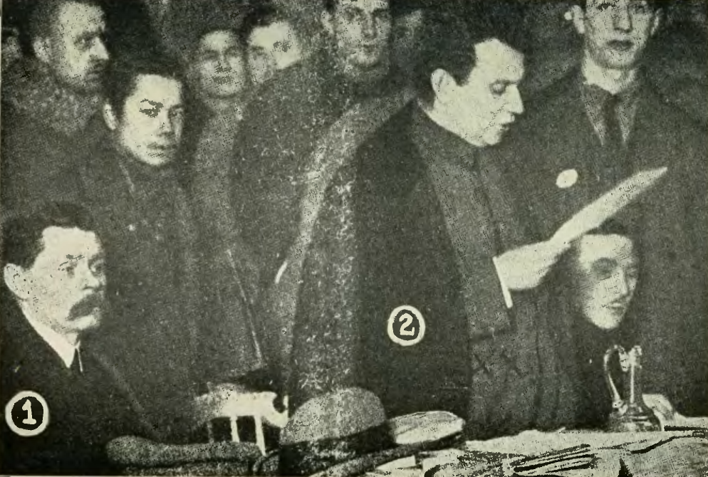 Zinoviev (reading) and Gorky (in a big moustache, left), during the revolutionary period in Russia.